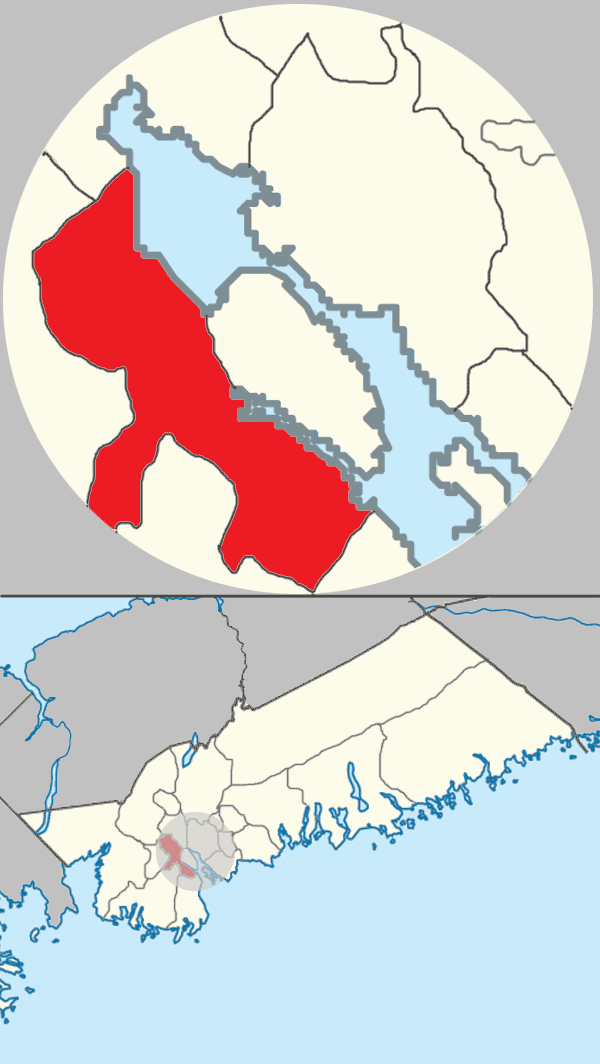 Updated map of Halifax Peninsula in Halifax, Nova Scotia to standard colours, higher resolution, using